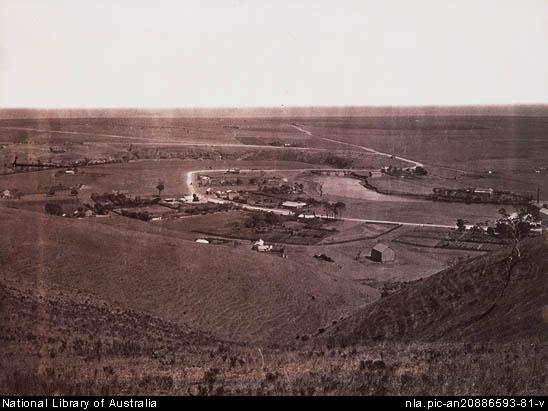 Taken from [1]